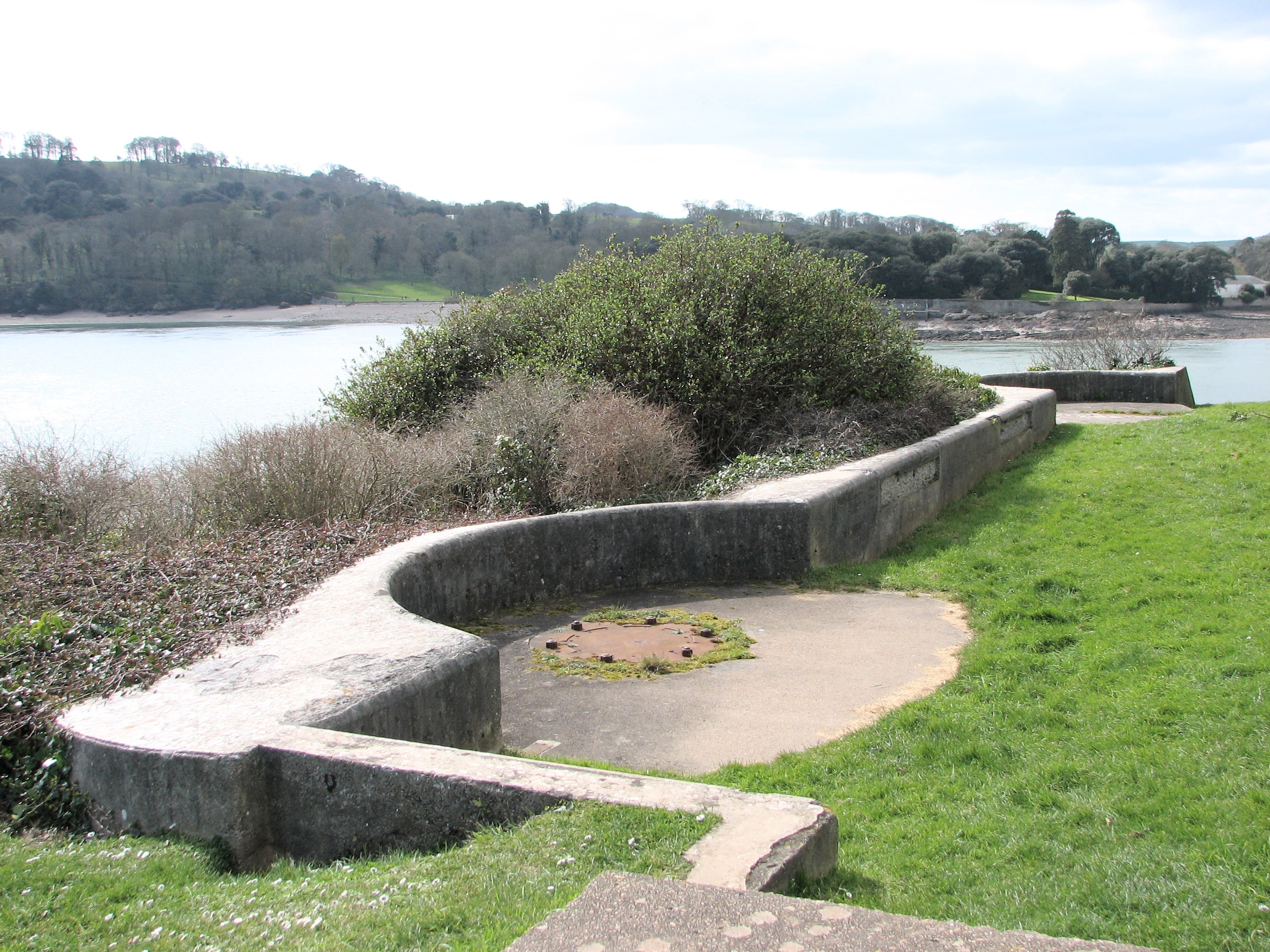 Devil's Point Battery B, at Devil's Point, Stonehouse, Plymouth, England. Built in 1901-2, it mounted two 12-pounder QF guns to cover the narrow entrance to the Hamoaze. Grid reference SX45965335.